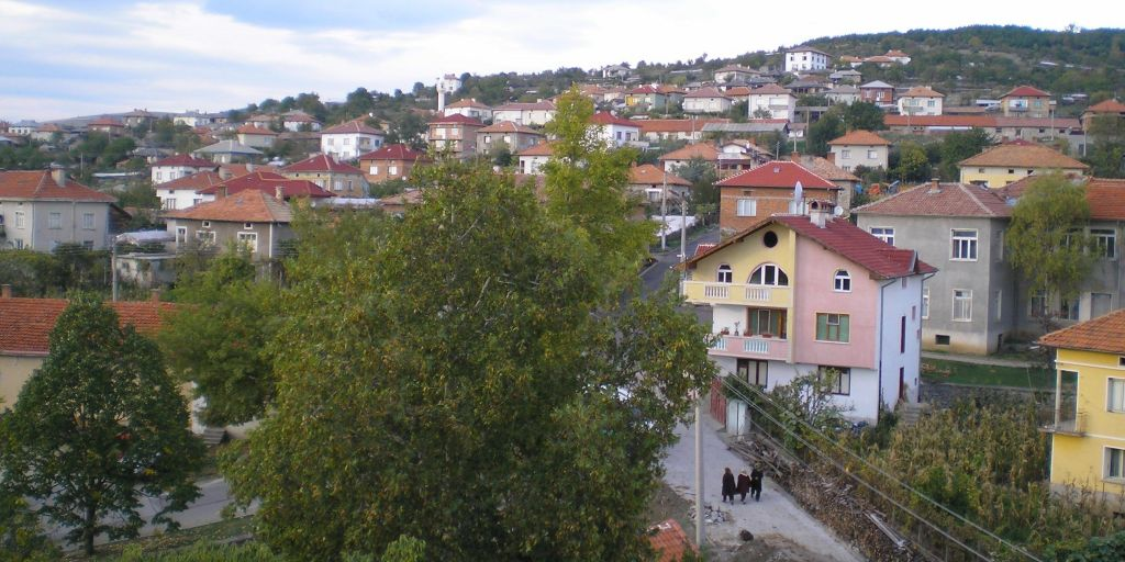 The village of Tuhovishta.